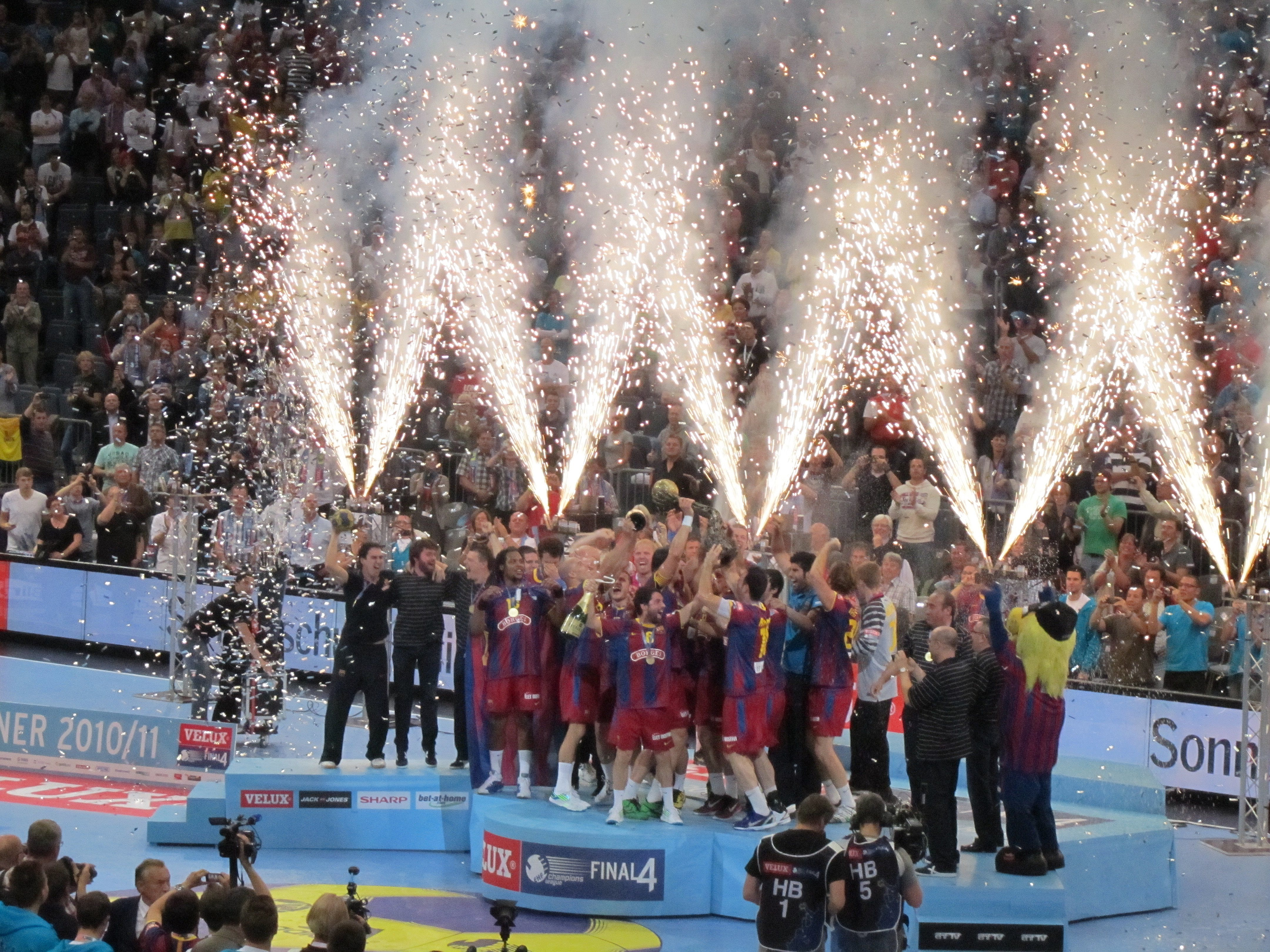 FC Barcelona (Handball) during the winners ceremony of the EHF Champions League 2010/11